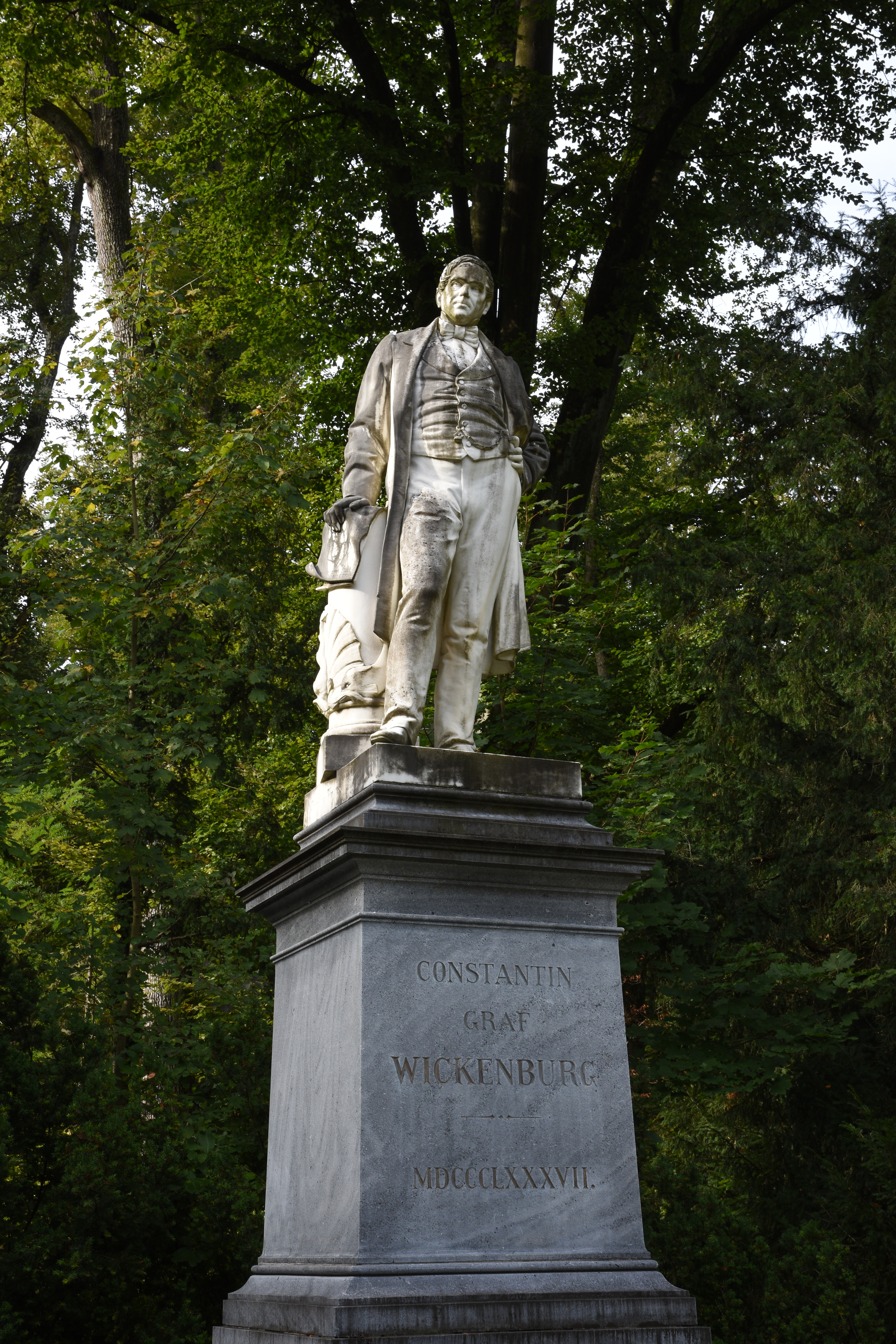 Kurpark Bad Gleichenberg